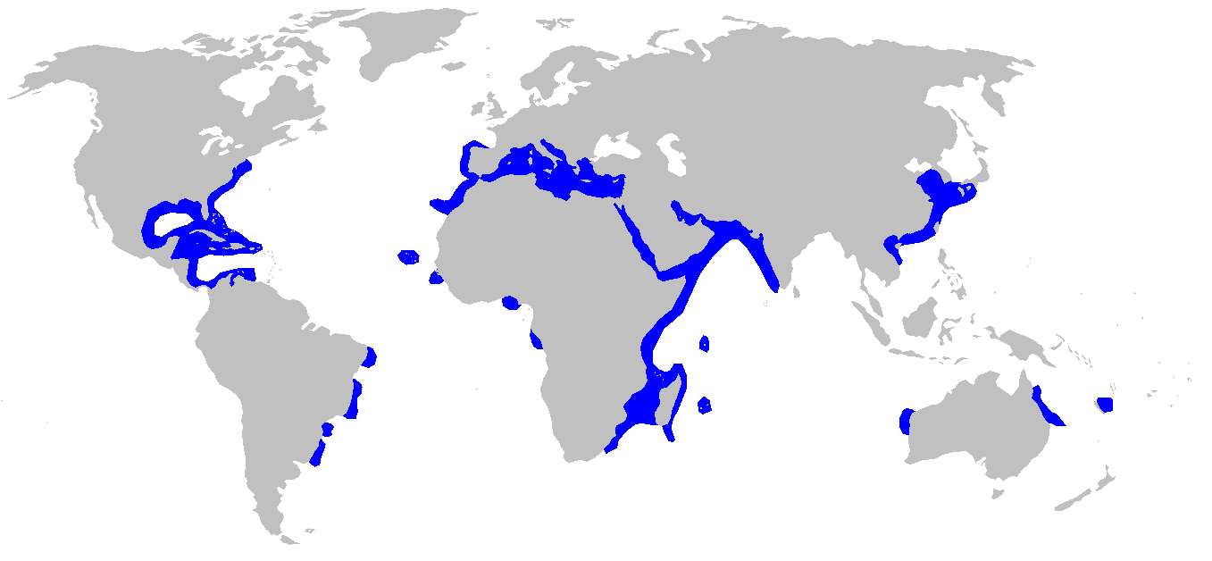 Distribution map for Carcharhinus plumbeus